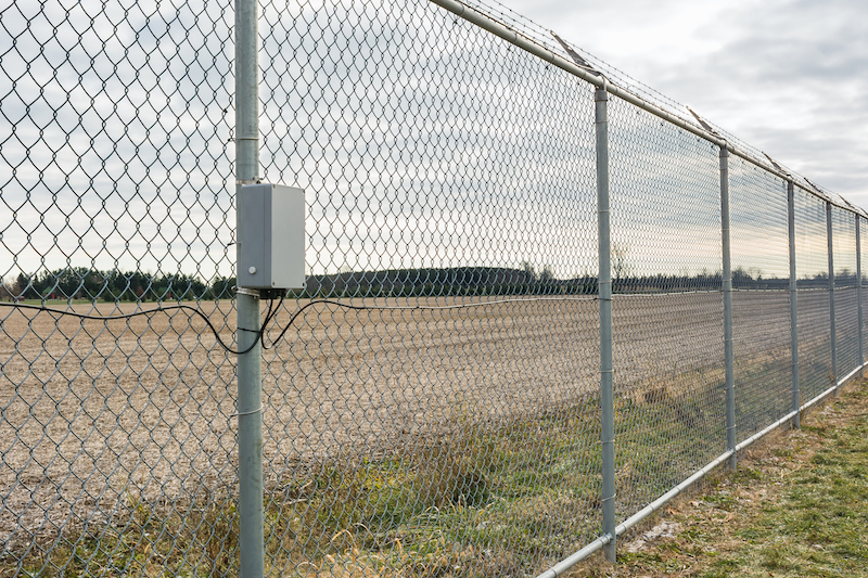 The sensor detects and analyzes the vibrations generated by someone attempting to cut, climb, or lift the fence fabric.